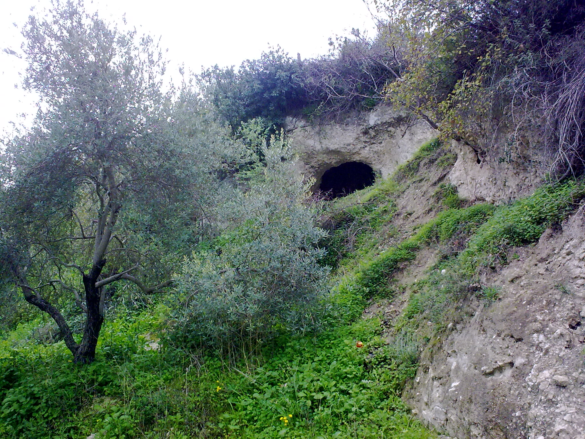 Phoenician Cave in Mieh Mieh village